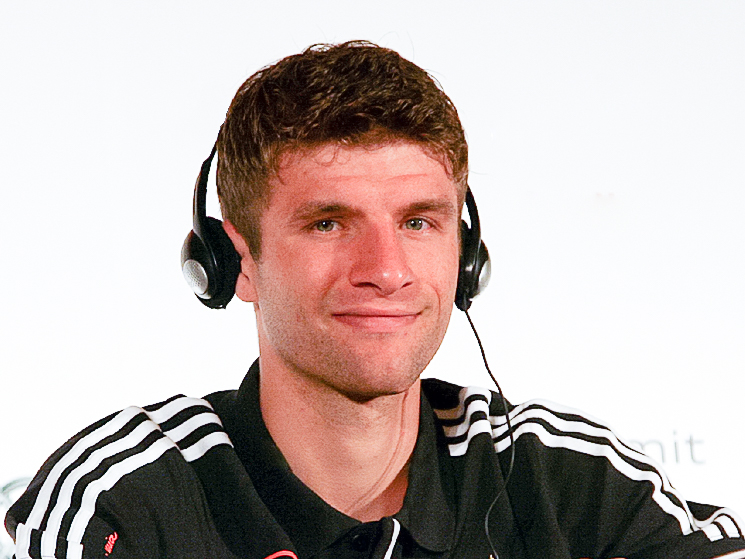 Thomas Müller in Guangzhou, China